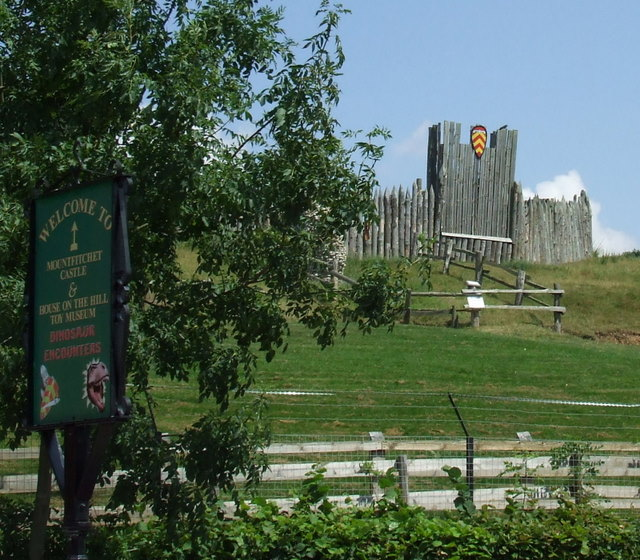 Mountfitchet Castle Run as a commercial venture which includes the biggest toy museum in the world.